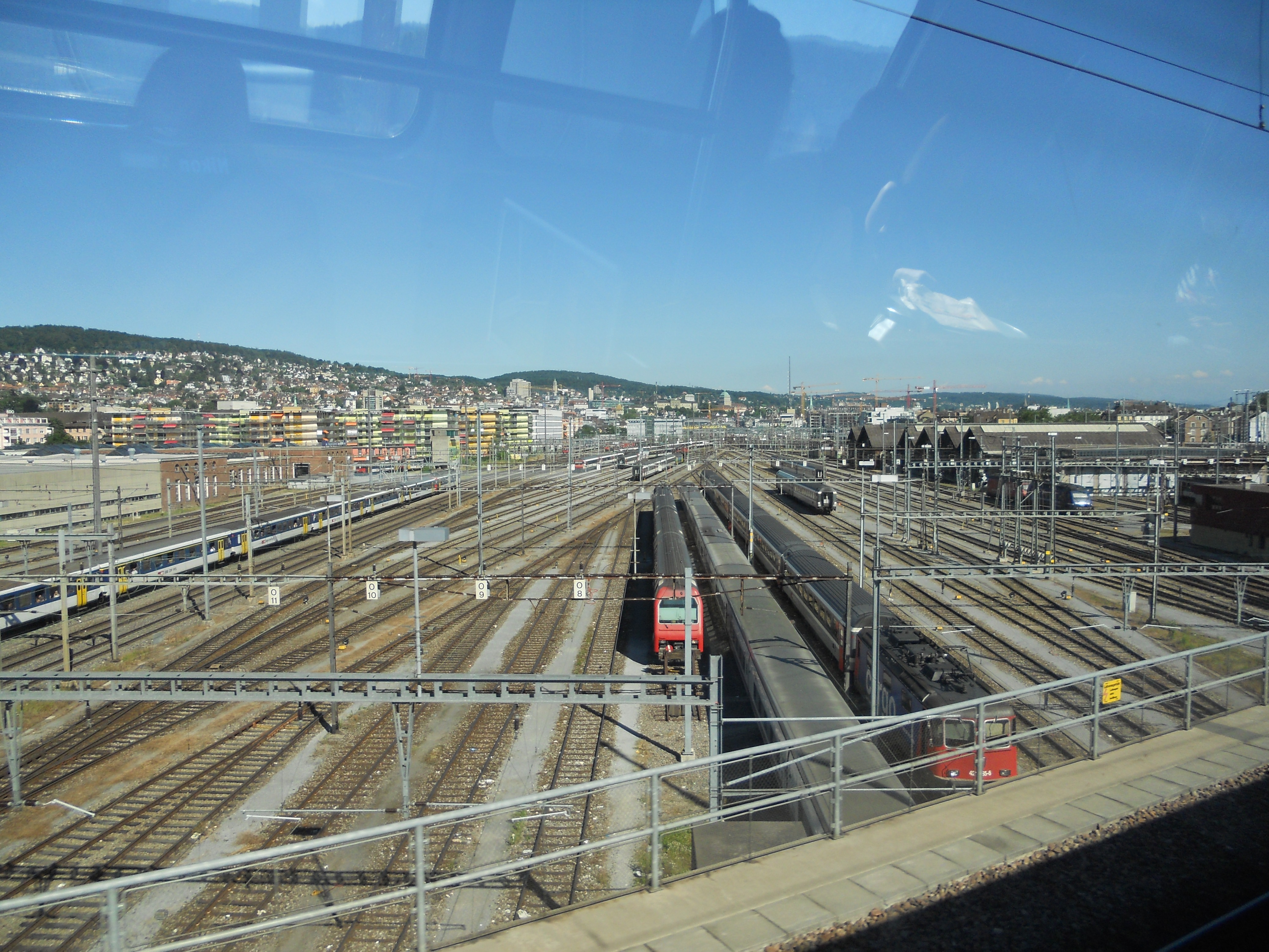 Taken in a train on the Aussersihler Viadukt in Zurich, Switzerland. You can see the rails in the front of the main station of Zurich. In the back of the bridge is the Prime Tower, which was in construction.